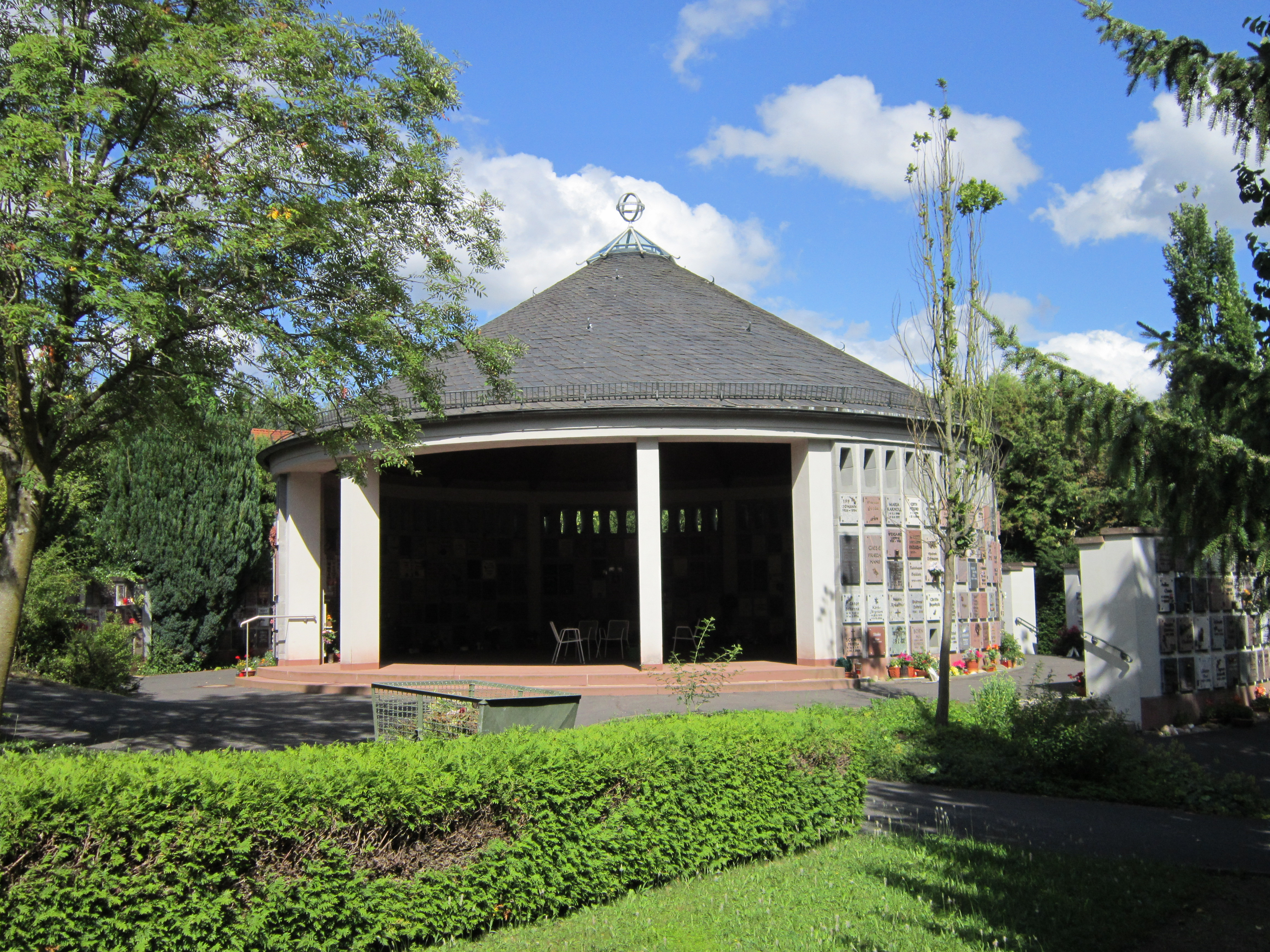 Columbarium at the "Parkfriedhof" in the Bavarian spa town of Bad Kissingen, Germany.